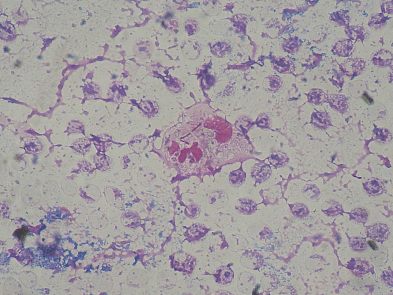 Phagocytosis of bacteria Pseudomonas aeruginosa by neutrophil in patient with bloodstream infection.